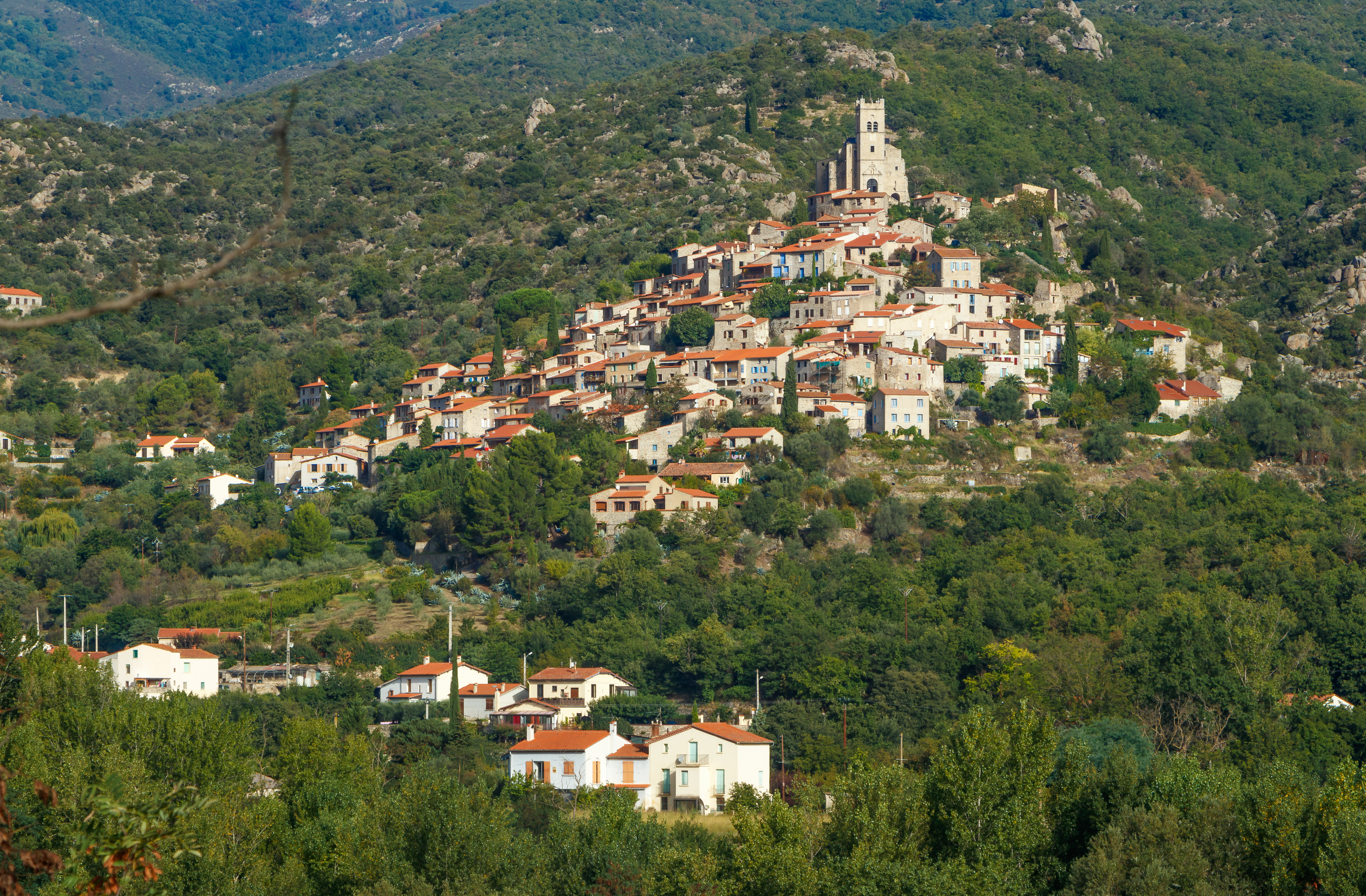 View from southeast on Eus:Eus, Pyrénées-Orientales, France.